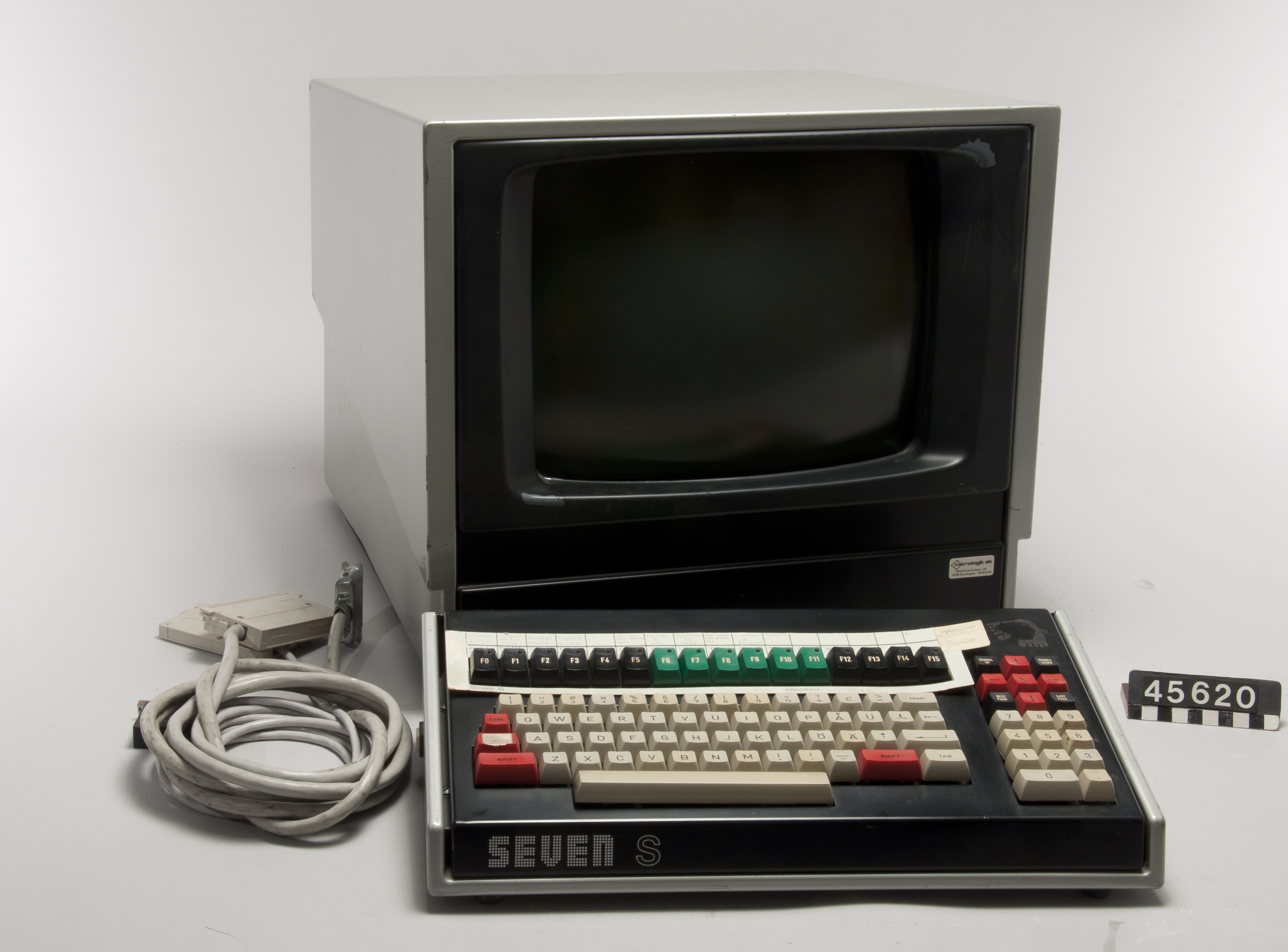 This is the Seven S terminal computer, the first personal computer created by Dataindustier AB, from the collections of Tekniska museet.